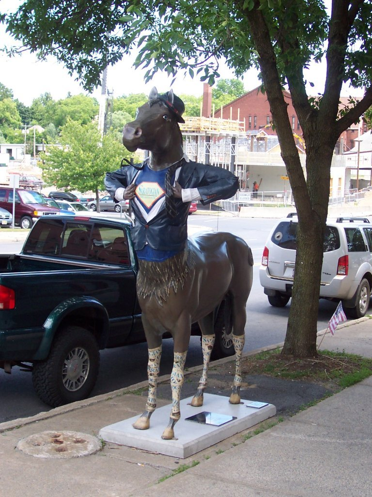 Superhorse horse from the Horses, Saratoga Style exhibit, in Saratoga Springs, NY, at Lake Avenue and Putnam Street. Picture taken by myself...information about it obtained from the link.